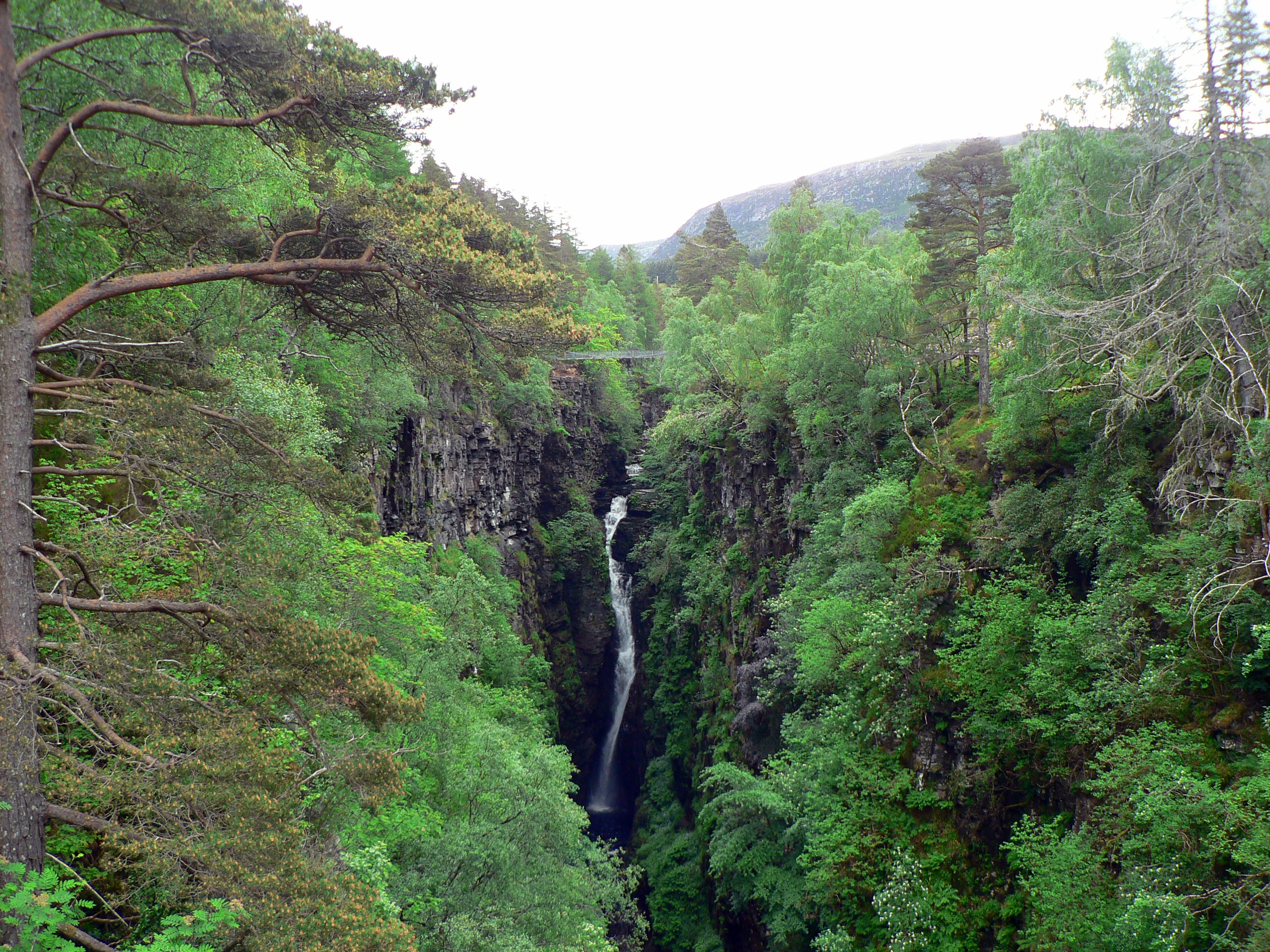 Corrieshalloch Gorge Waterfall, Scotland